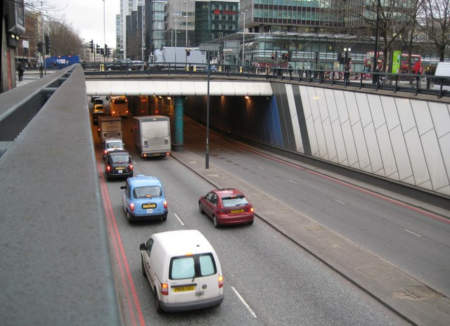 A501 Euston Road Underpass (1) The underpass takes the A501 under the junction with the A400 Hampstead Road, which is to the right, and the A400 Tottenham Court Road which is to the left. The Euston Road is the northern limit of the Congestion Charging Zone, and any traffic turning left off Euston Road from here would incur the charge.